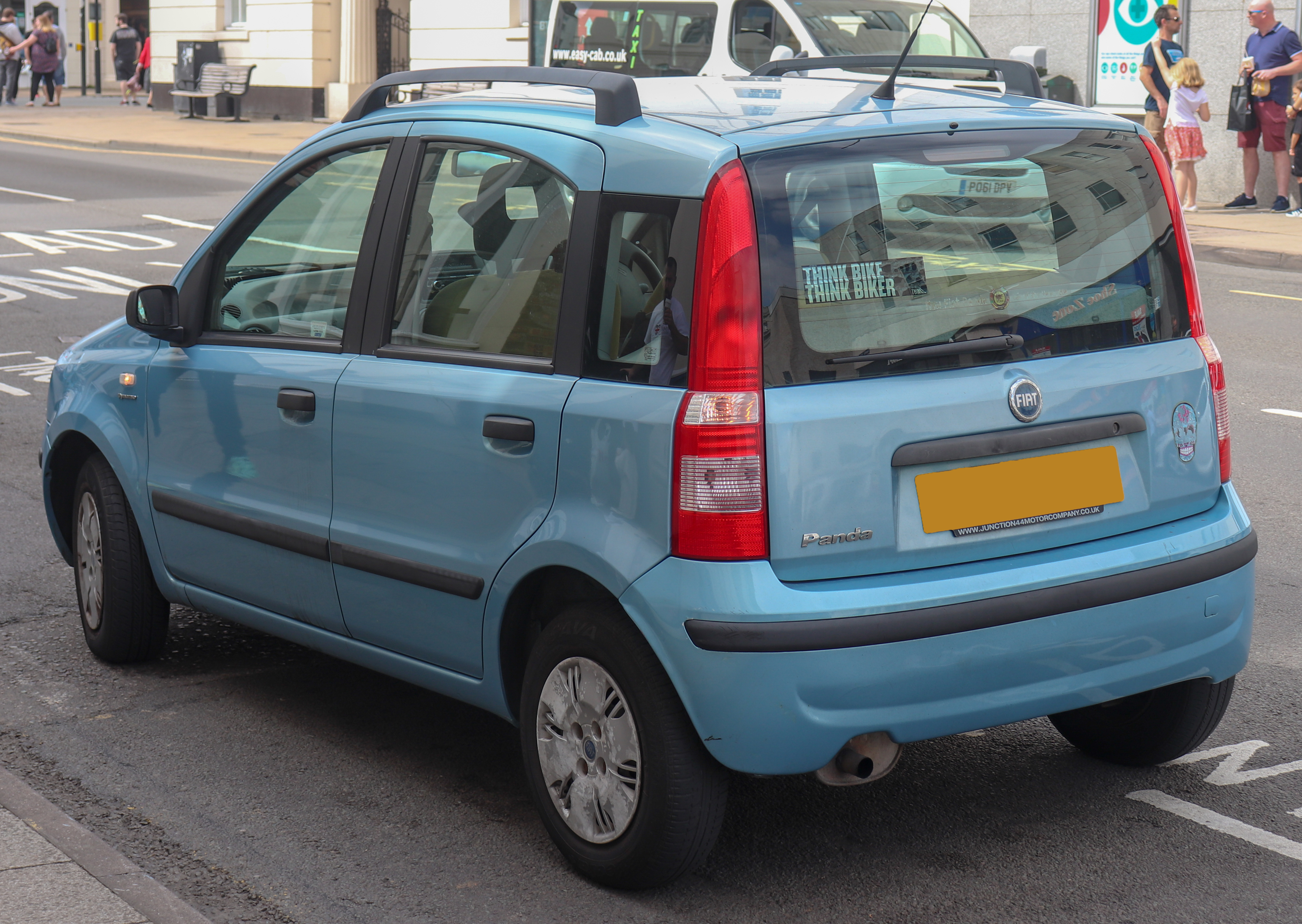 2004 Fiat Panda Dynamic 1.2 Rear Taken in Leamington Spa